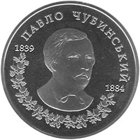 Coin of Ukraine